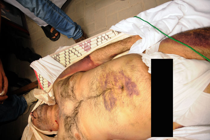 Mr Fakhrawi death is attributed to torture while in the custody of the NSA.